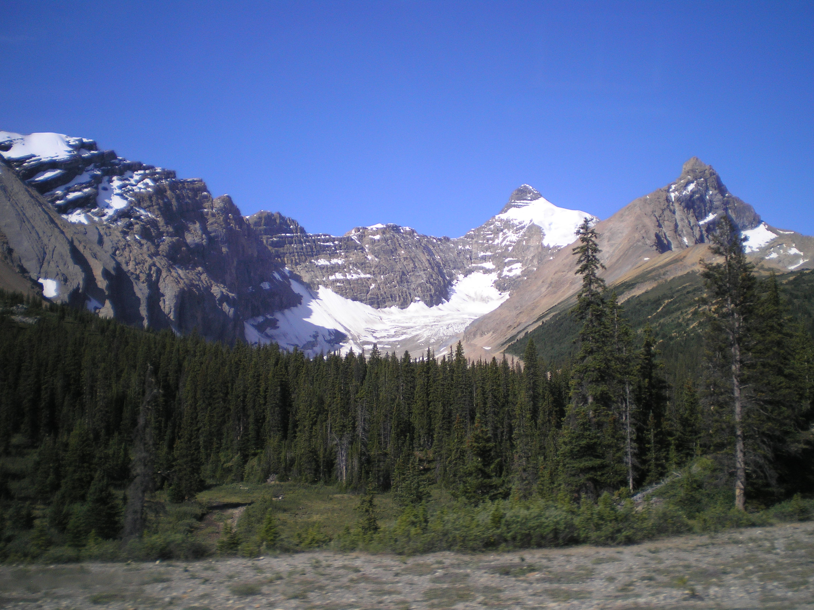 Mount Athabasca seen from Icefields Parkway.